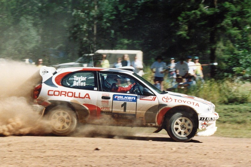 Neal Bates (Toyota Corolla WRC) at Rally Queensland, 1998